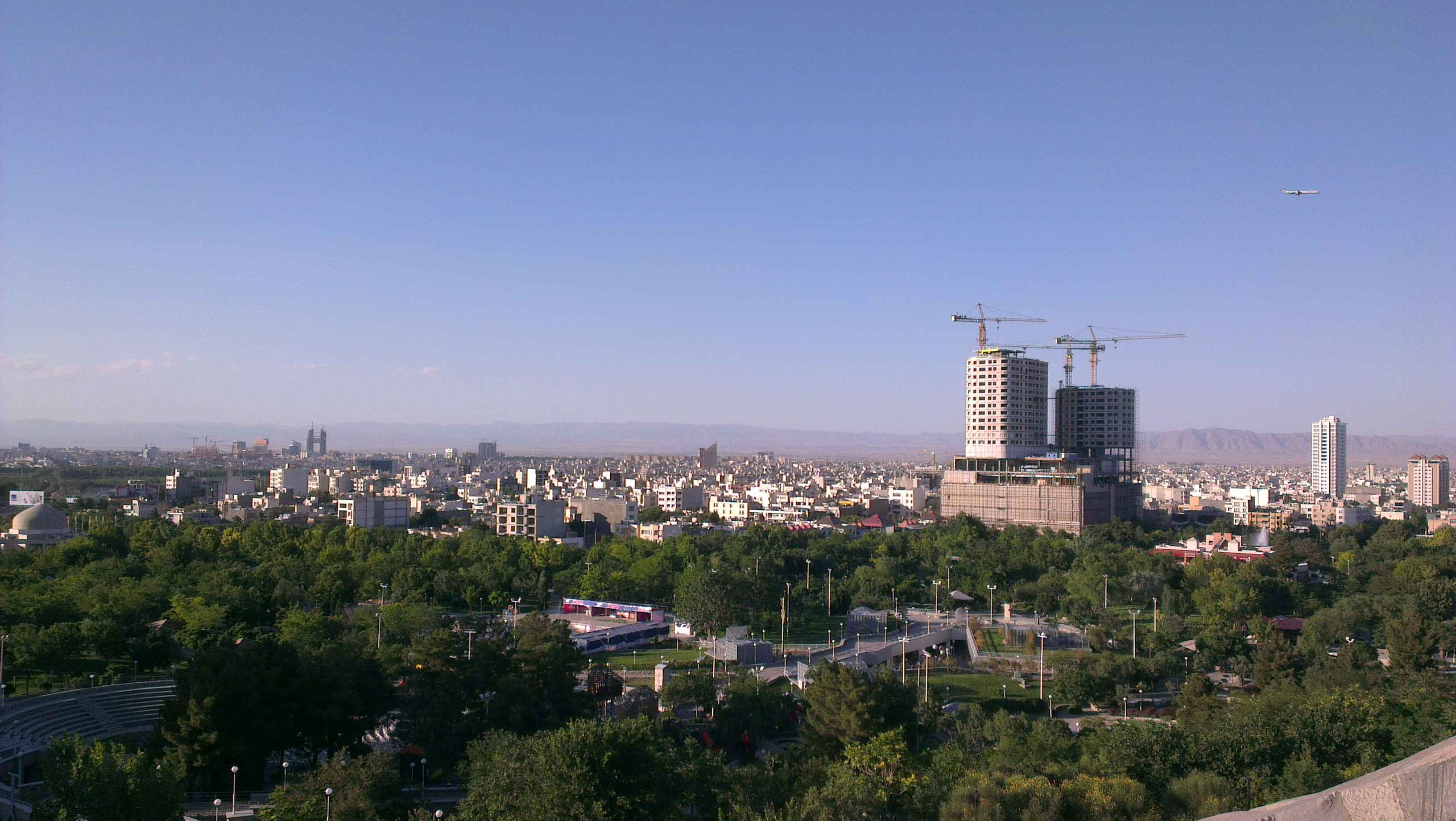 kuh sangi park in mashhad, iran